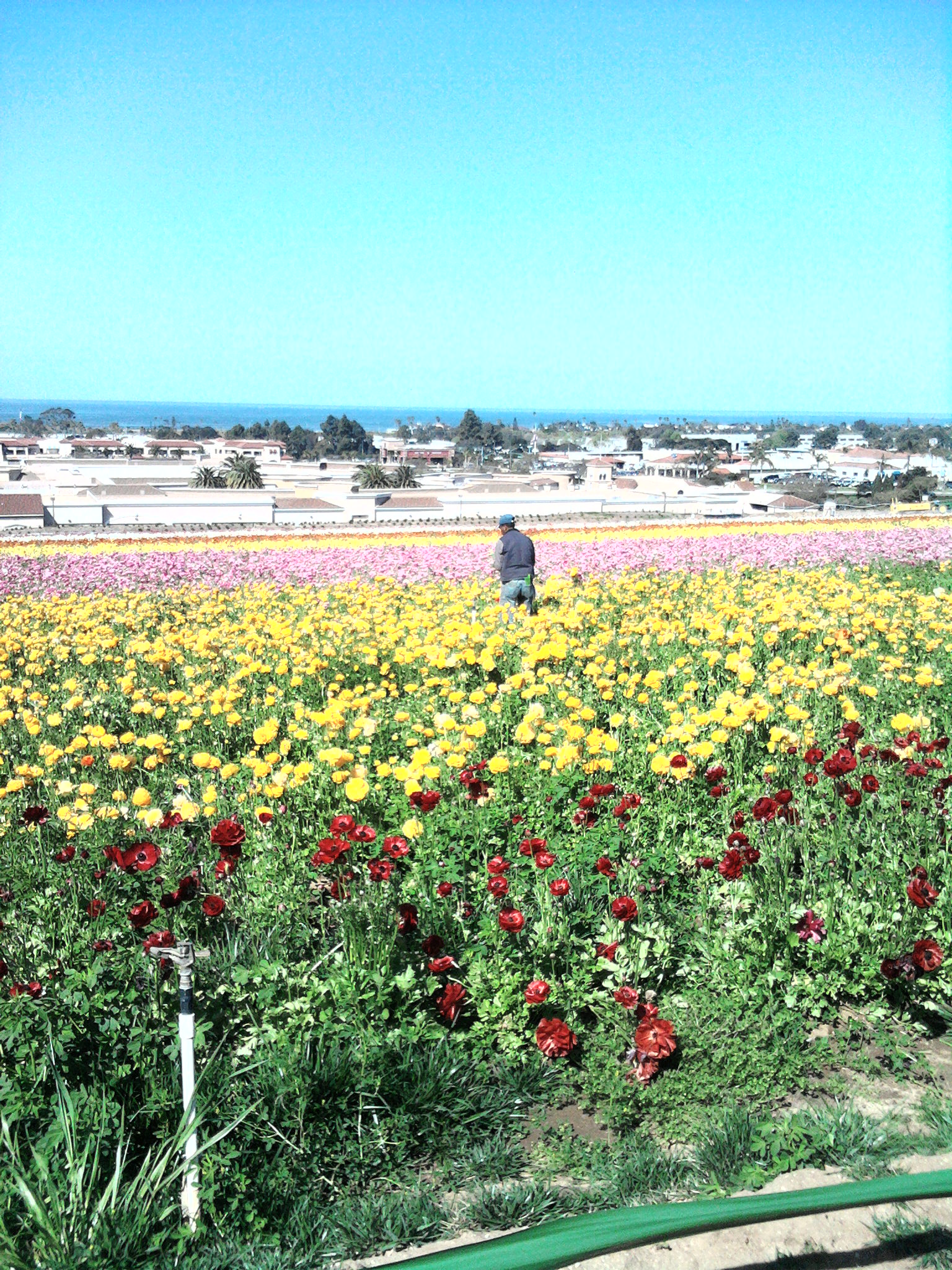 వరుసల మధ్య బొకే తయారు చేయడానికి సహకరిస్తున్న పర్యాటకులు